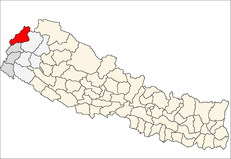 FrenchCarte de localisation dudistrict de Darchula(wp-FR),au Népal (wp-FR).EnglishLocation map ofDarchula District(wp-EN),in Nepal (wp-EN).